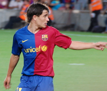 A photo of Bojan Krkic, FC Barcelona player, during Joan Gamper trophy 2008